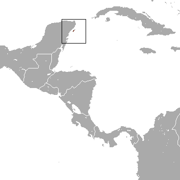 Cozumel Raccoon (Procyon pygmaeus) range